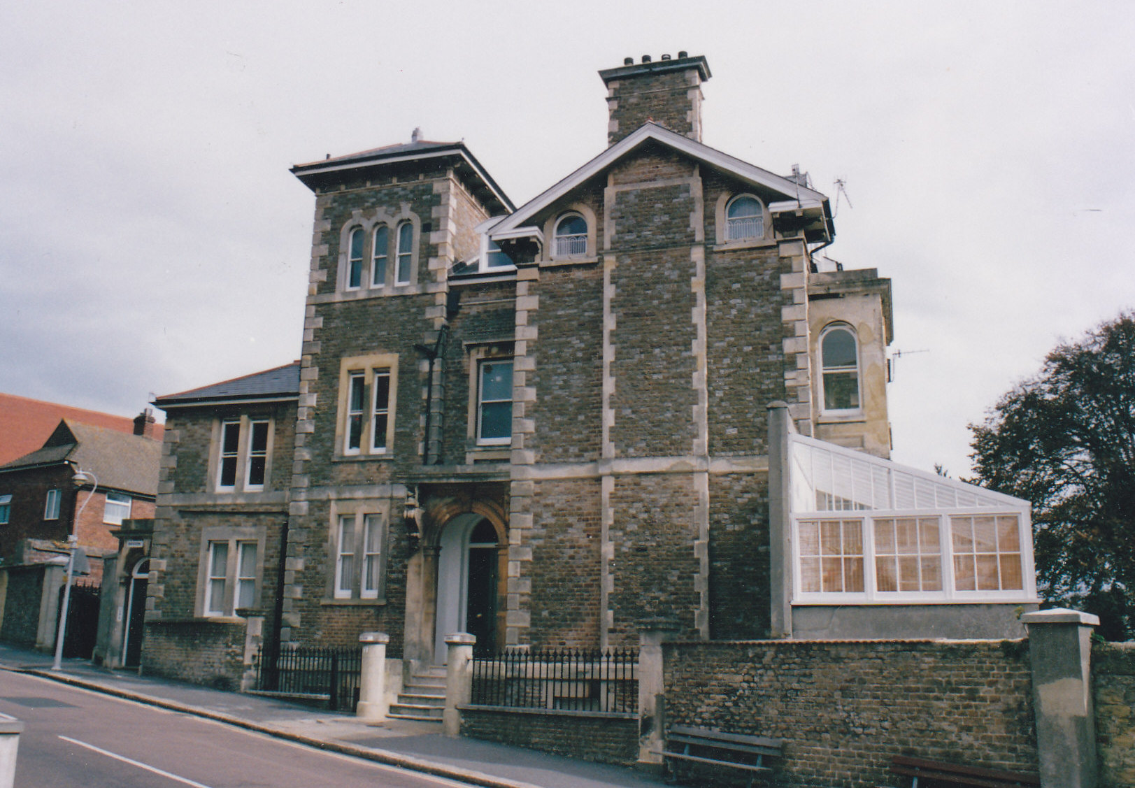 Baston Lodge, 1 Upper Maze Hill, St Leonards-on-Sea, Hastings, East Sussex, southern England. Alan Turing, the Bletchley Park code-breaker, stayed here as a boy and attended St Michael's day school at 20 Charles Road.